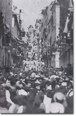 Two "3 de 9 amb folre" human towers, built by the 2 teams from Valls, in Vilafranca del Penedès (year 1862).